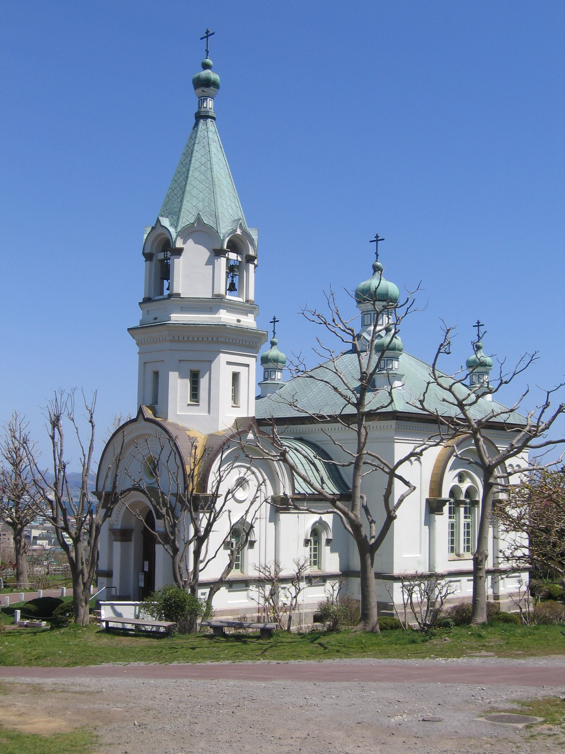 A front/side view of the Orthodox Church in Hakodate, Hokkaido, Japan. Taken by Mark J. Nelson around noon on May 8, 2006. The church belongs to the Autonomous Orthodox Church in Japan.